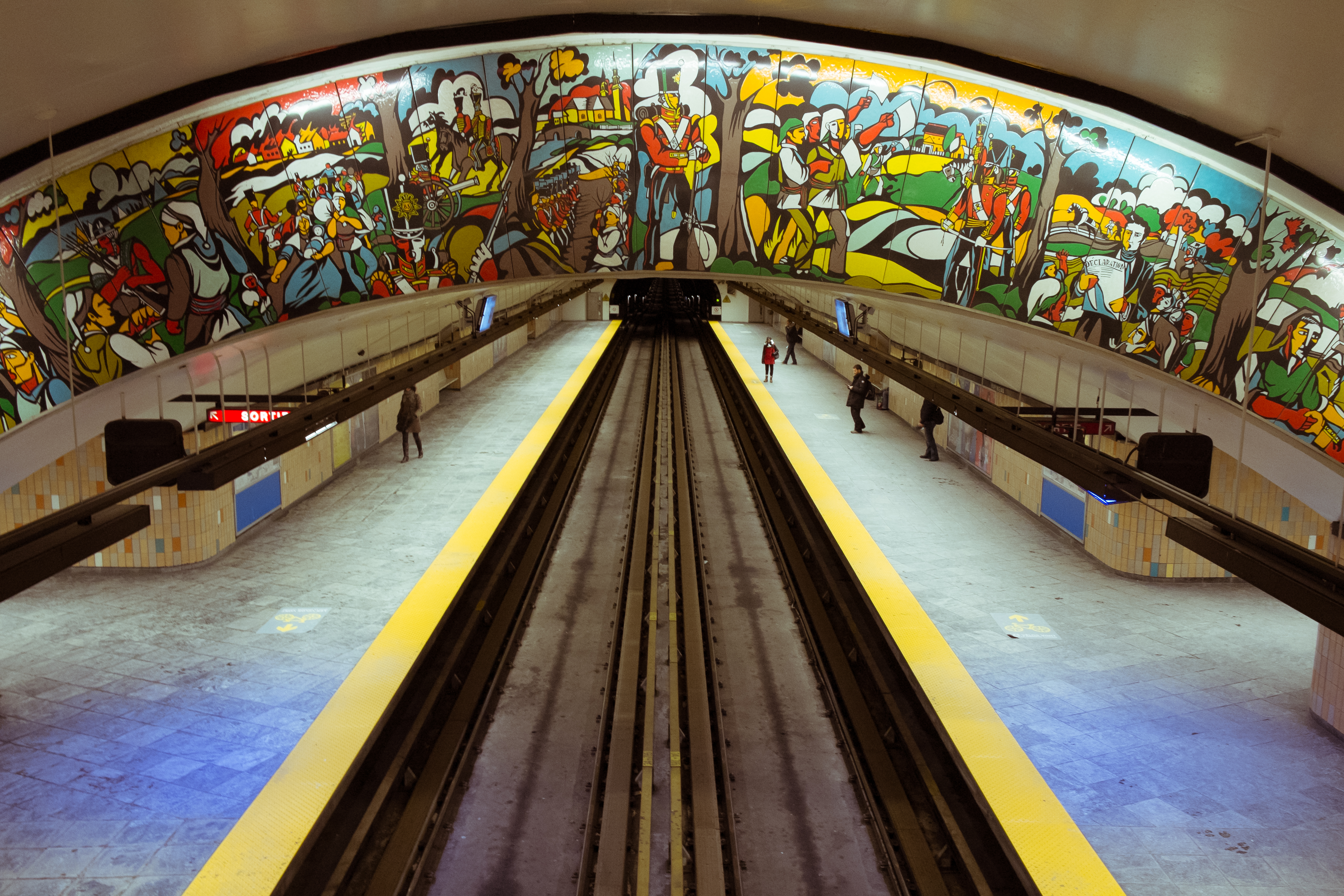 Papineau metro station in Montreal, Québec